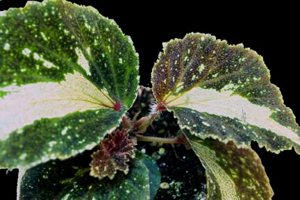 An unusually beautiful Begonia species as a seedling.